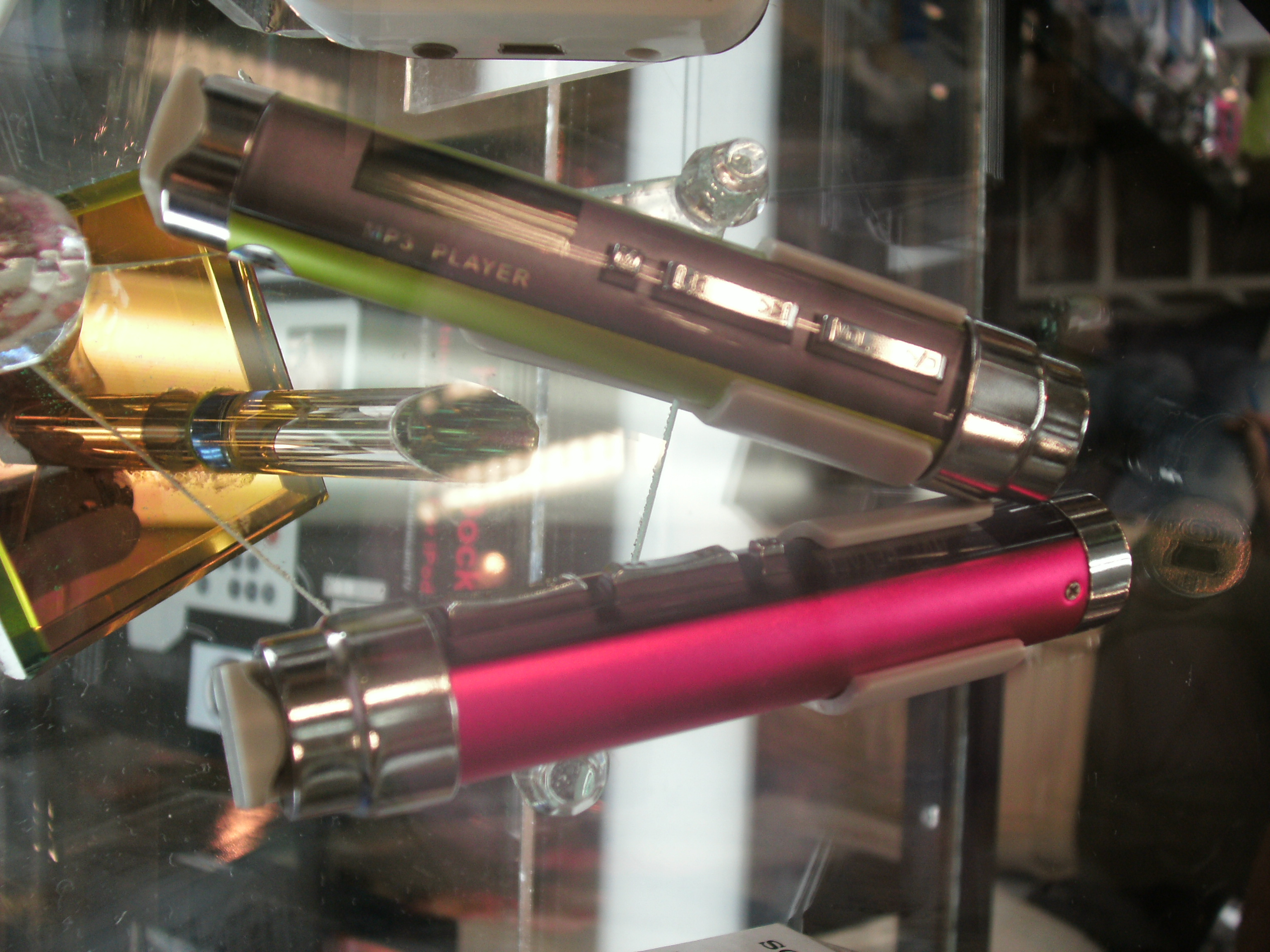 Mp3 lapicera